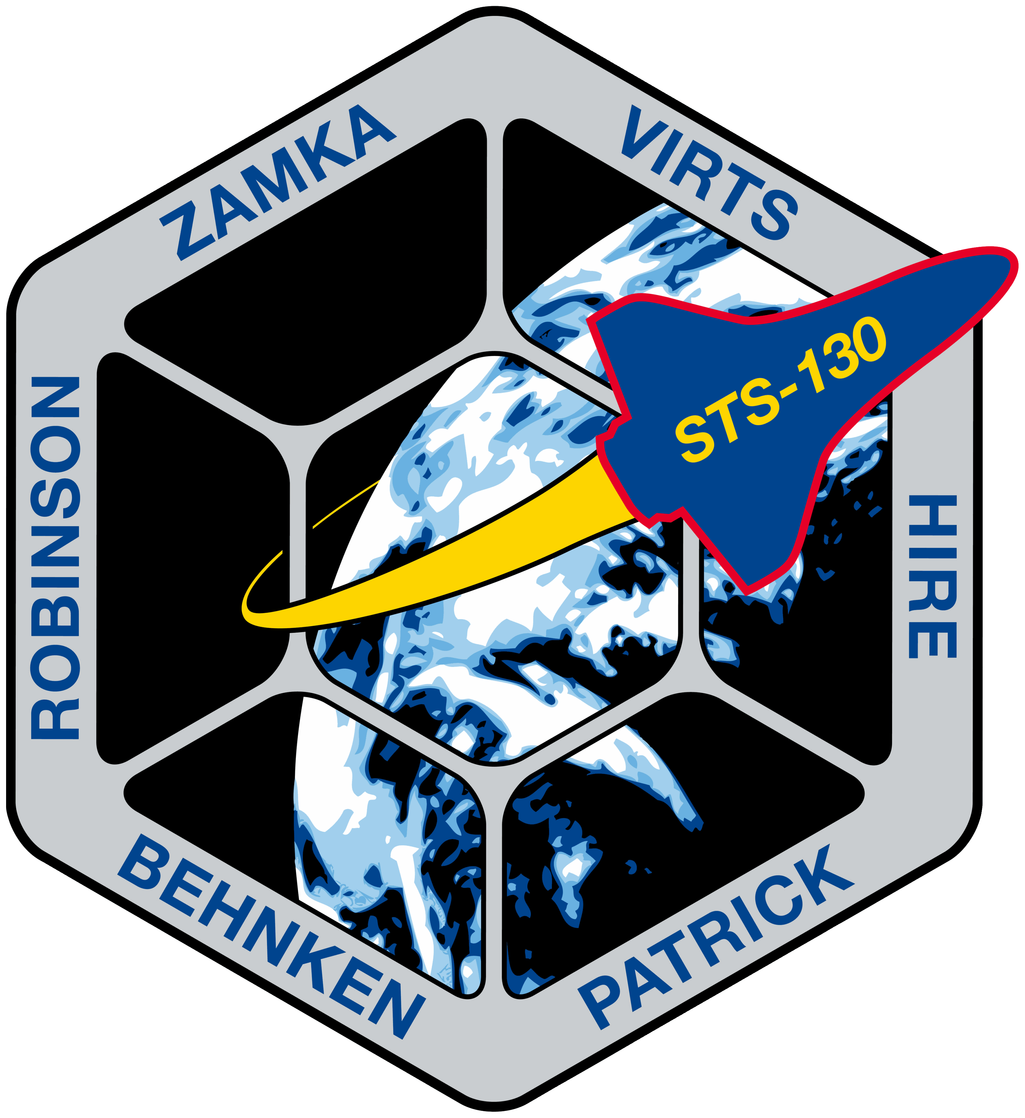 The official patch for STS-130. The shape of the patch represents the Cupola, which is the windowed robotics viewing station, from which astronauts will have the opportunity not only to monitor a variety of ISS operations, but also to study our home planet. The image of Earth depicted in the patch is the first photograph of the Earth taken from the moon by Lunar Orbiter I on August 23, 1966. As both a past and a future destination for explorers from the planet Earth, the moon is thus represented symbolically in the STS-130 patch. The Space Shuttle Endeavour is pictured approaching the ISS, symbolizing the Space Shuttle's role as the prime construction vehicle for the ISS.